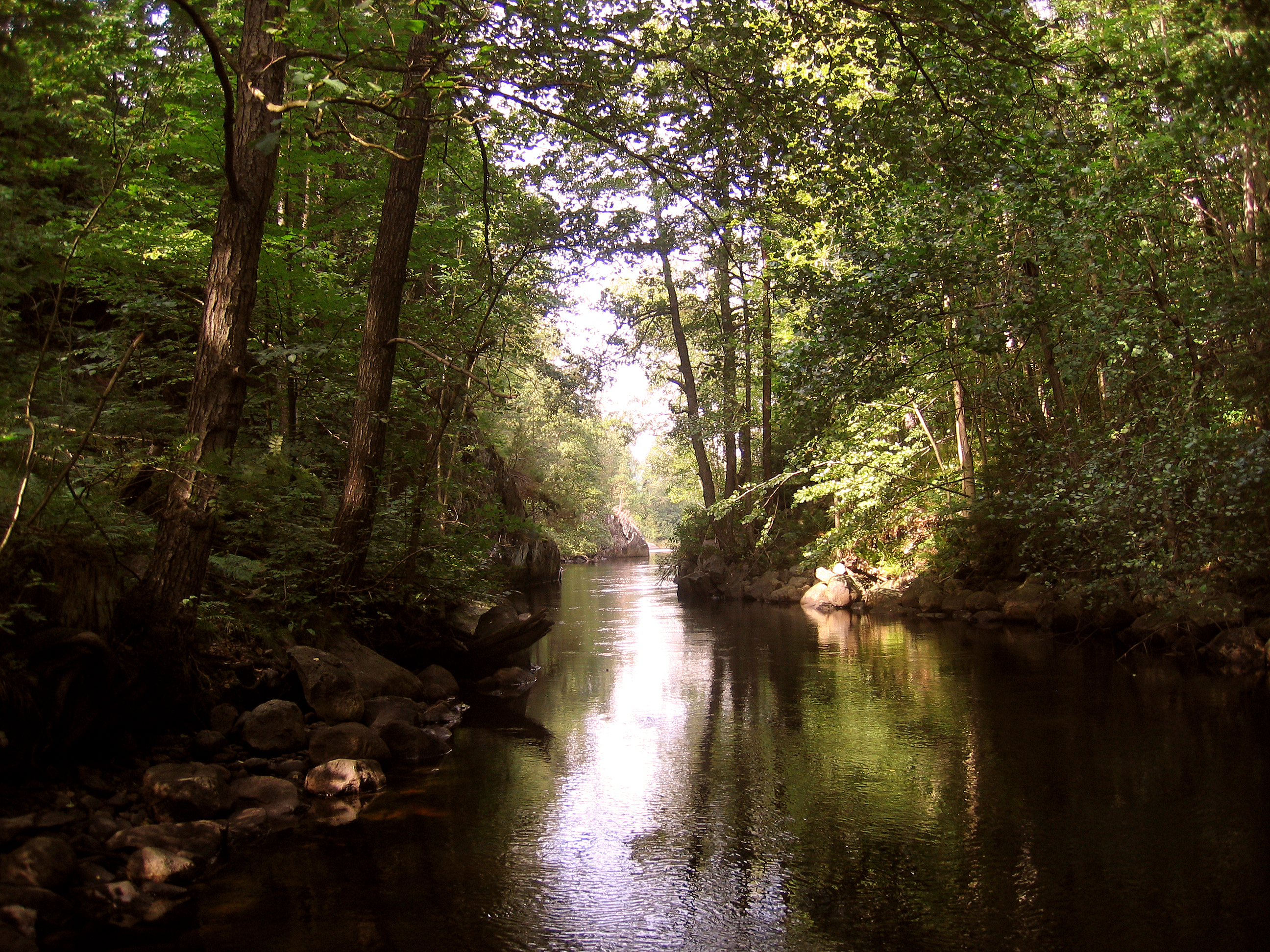 A waterway from see to a lake